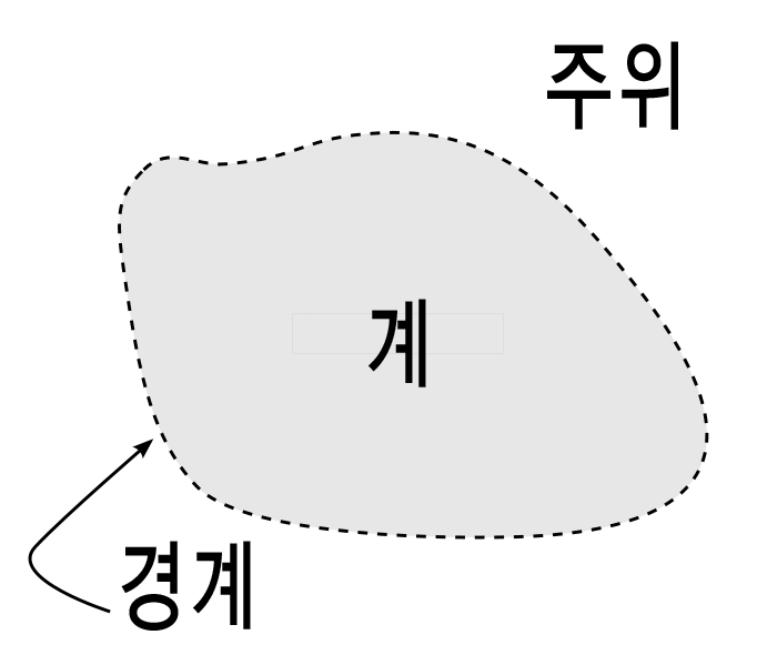 To explain the boundary between a system and its surroundings in Korean